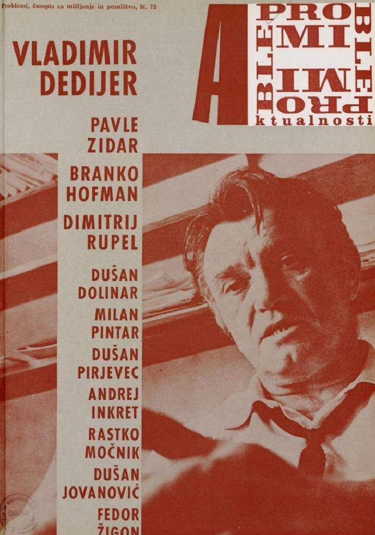 Vladimir Dedijer (1914 – 1990) on cover of Slovene magazine Problemi, published in Ljubljana, 1969.